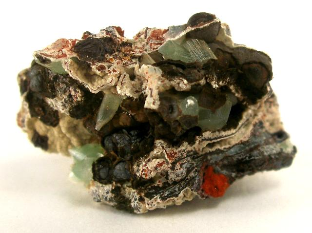 Fraipontite Locality: Lavrion (Laurion; Laurium) District, Attikí (Attica; Attika) Prefecture, Greece (Locality at ) Size: thumbnail, 1.4 x 1.0 x 0.9 cm Fraipontite An old specimen in a micromount box which hosts several rich pockets of pearly white, sub-mm fraipontite crystals associated with green smithsonite. This is a rare zinc aluminosilicate species. Ex. John White Collection.